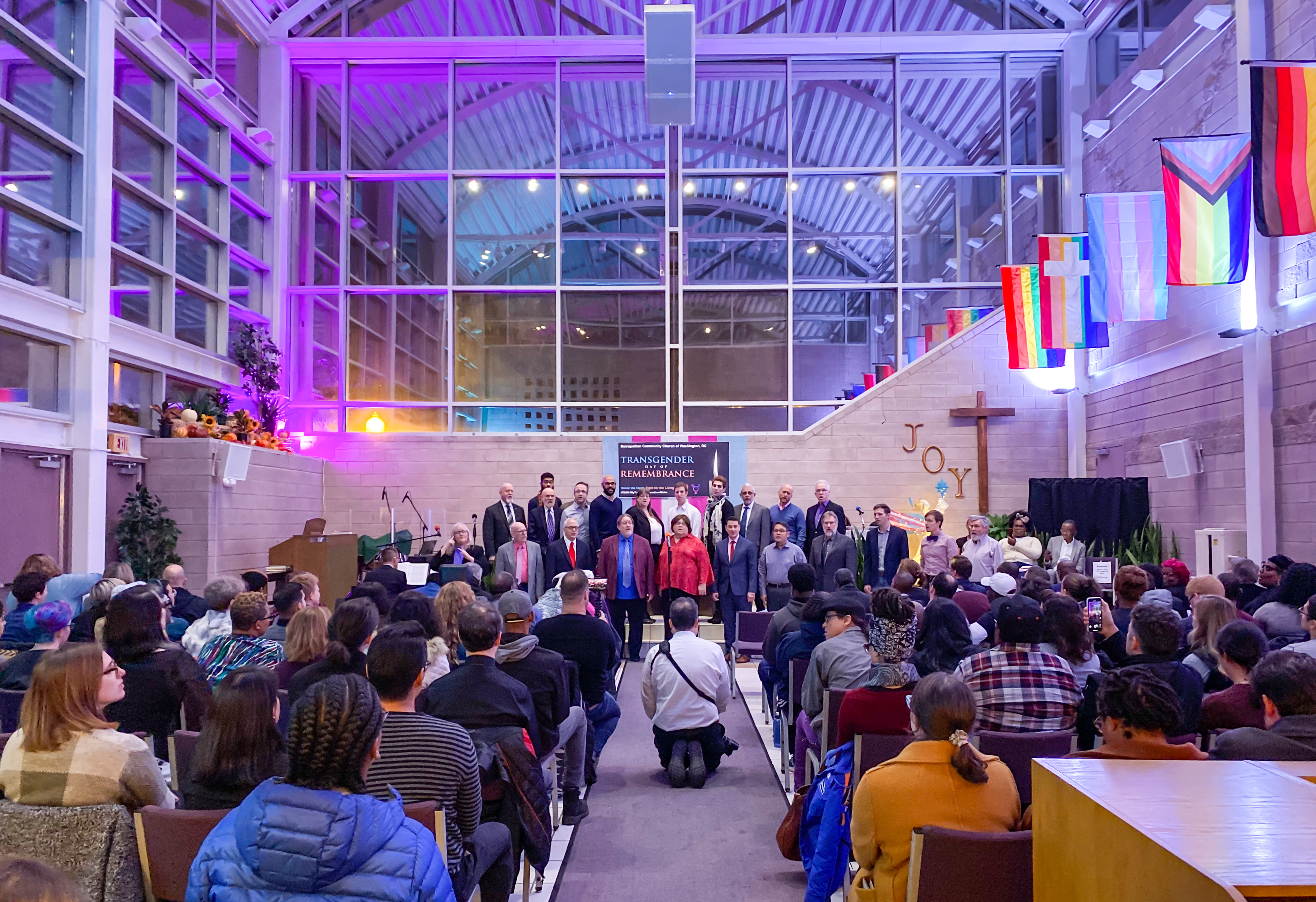 2019.11.20 Transgender Day of Remembrance, Washington, DC USA 324 03013